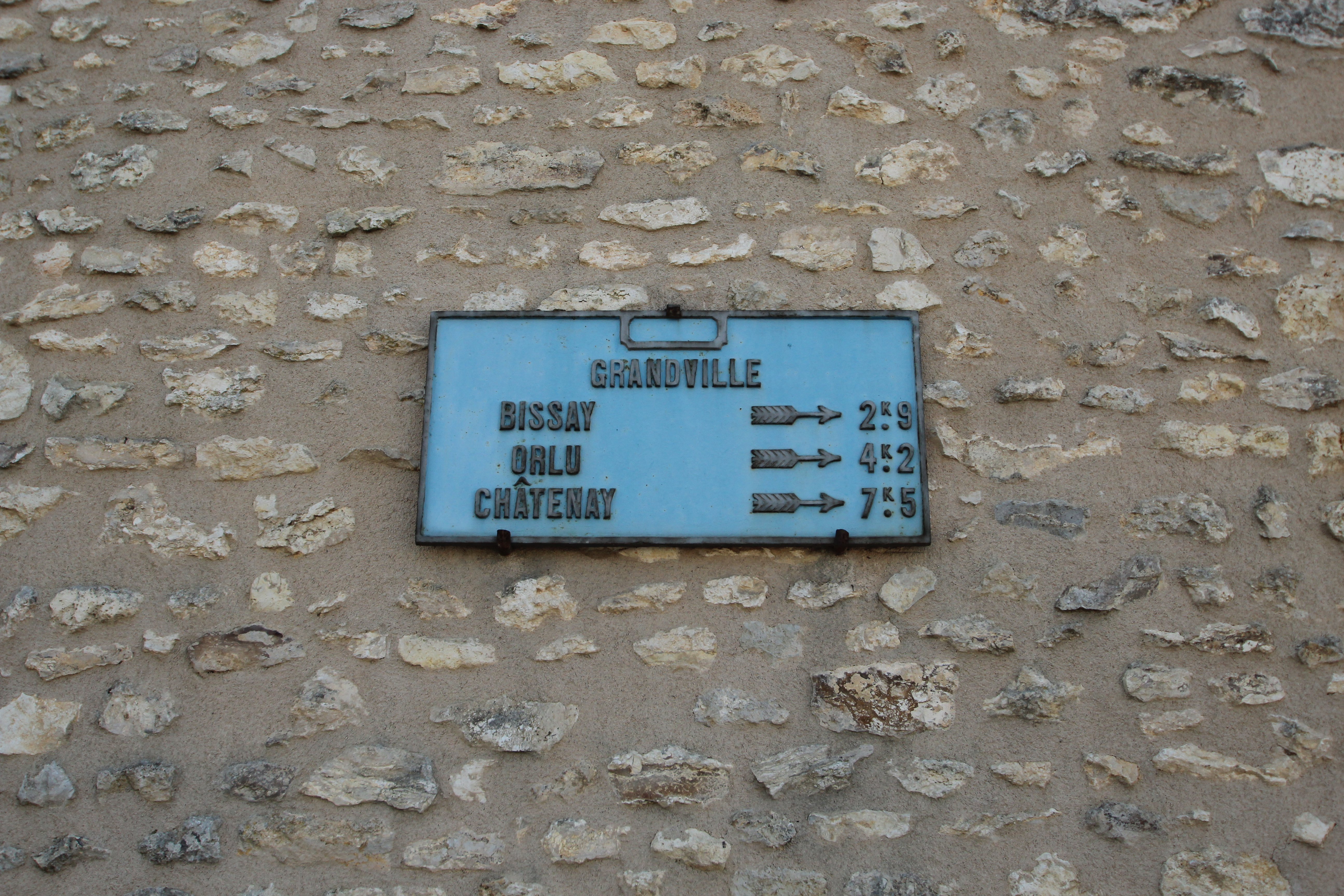 View of Grandville hamlet in Gommerville, Eure-et-Loir, France. Object location48° 21′ 40.1″ N, 1° 58′ 11.35″ E